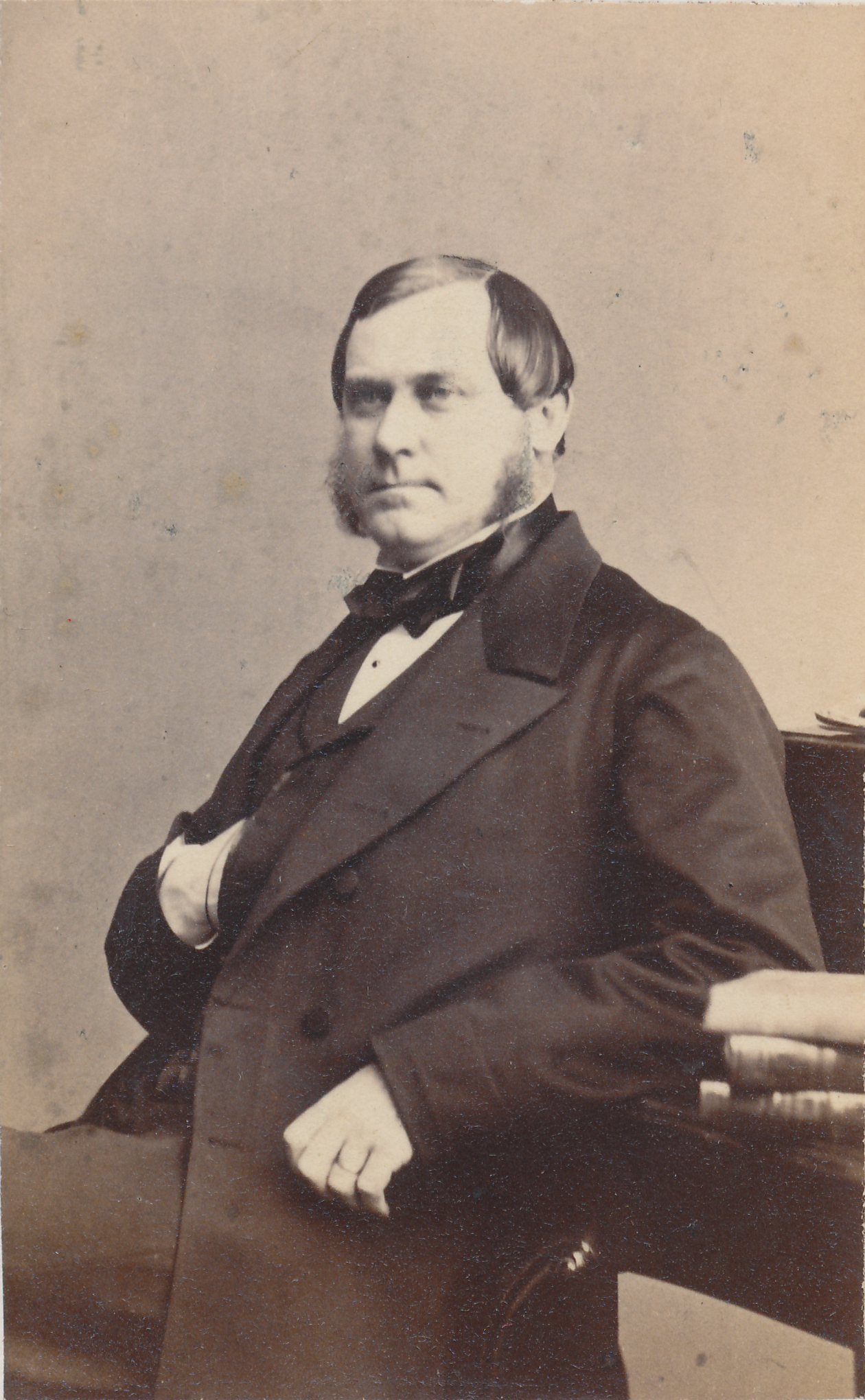 Portrait of Louis De Geer (1818–1896).